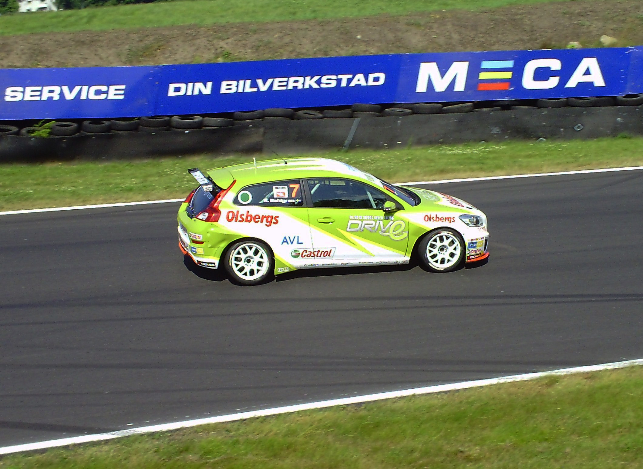 Robert Dahlgren in a Volvo C30 in Swedish Touring Car Championship at Falkenbergs Motorbana 2010.